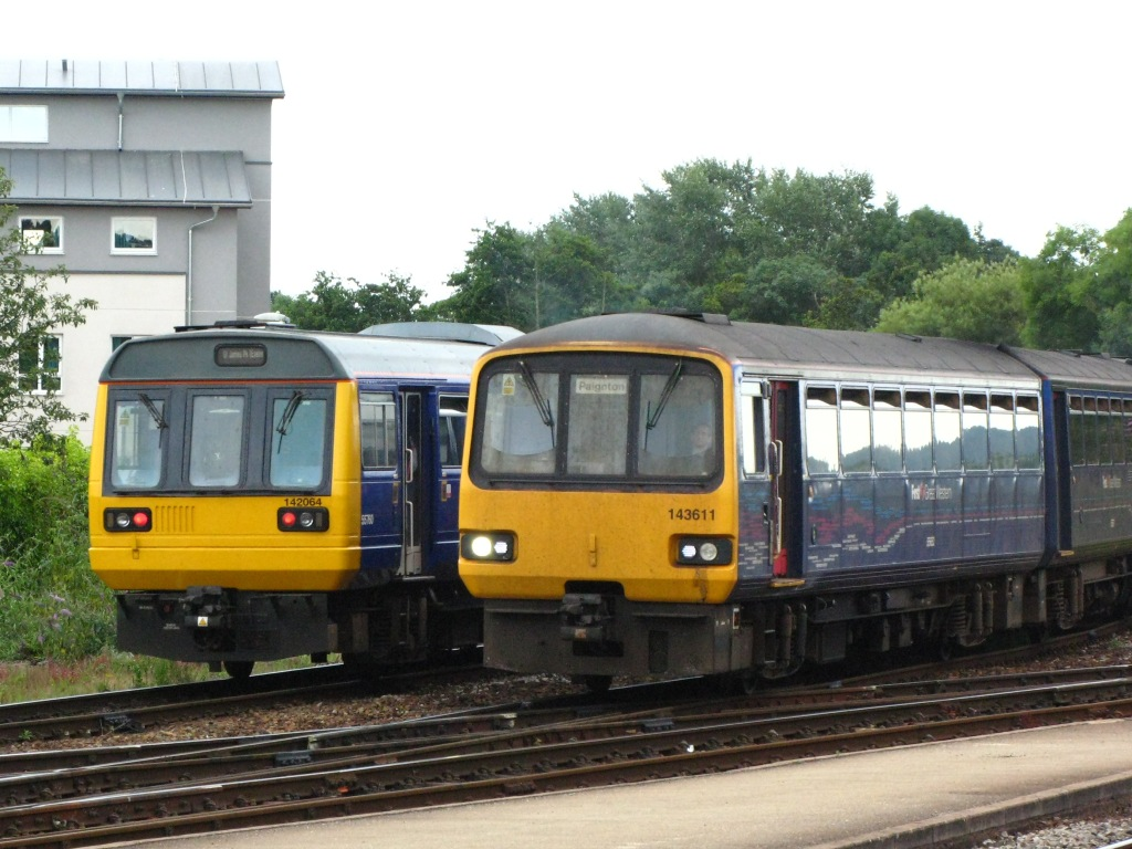 Two Avocet Line trains pass outside Exeter St Davids station. On the left 142064 has just left the station on its way from Paignton to Exmouth; on the right 143611 is making the opposite journey.